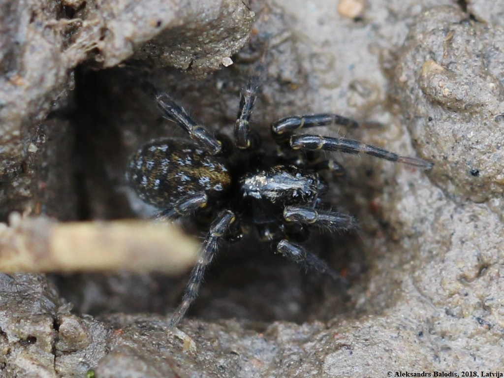 Arctosa leopardus